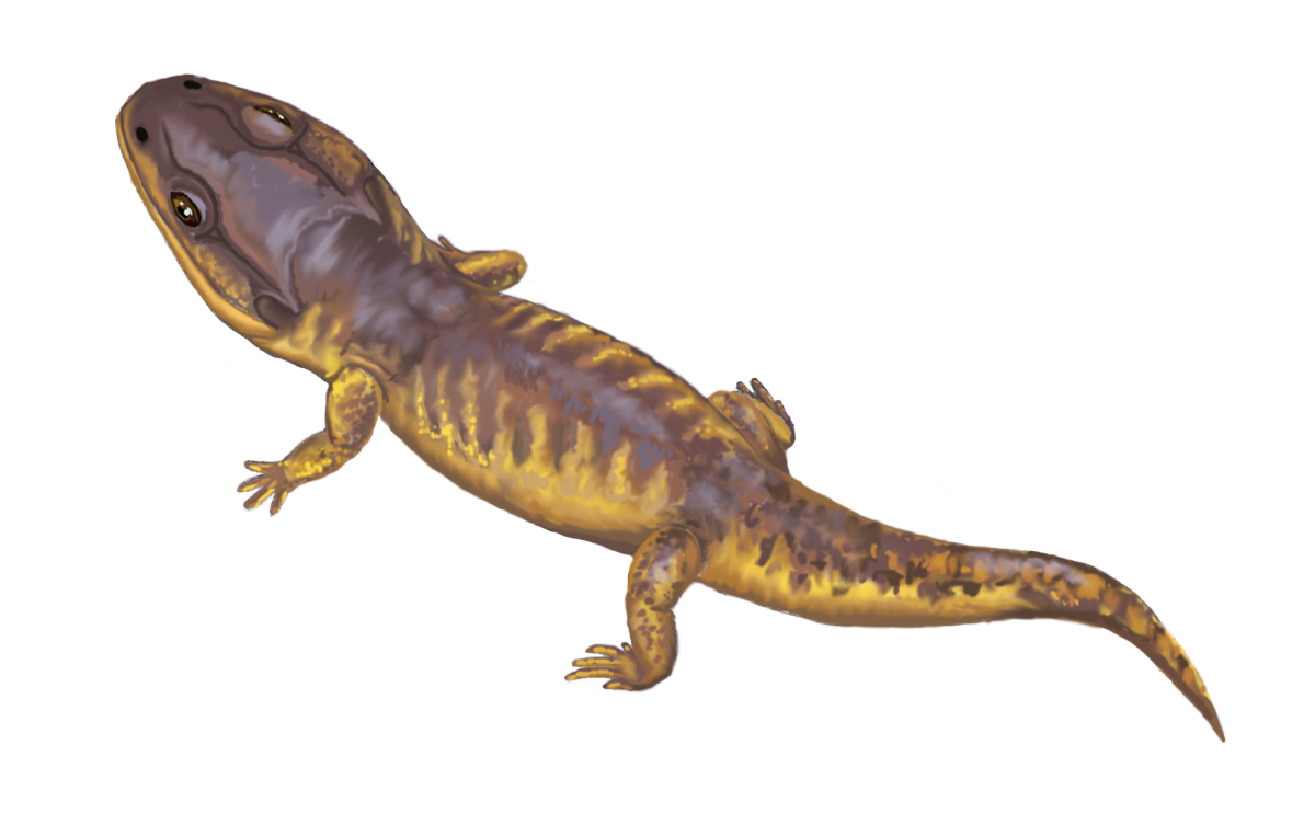 Life restoration of Nanolania anatopretia. Based on Figure 4 of "A new tiny rhytidosteid (Temnospondyli: Stereospondyli) from the Early Triassic of Australia and the possibility of hidden temnospondyl diversity" by Adam M. Yates (Journal of Vertebrate Paleontology 20(3): 484-489).